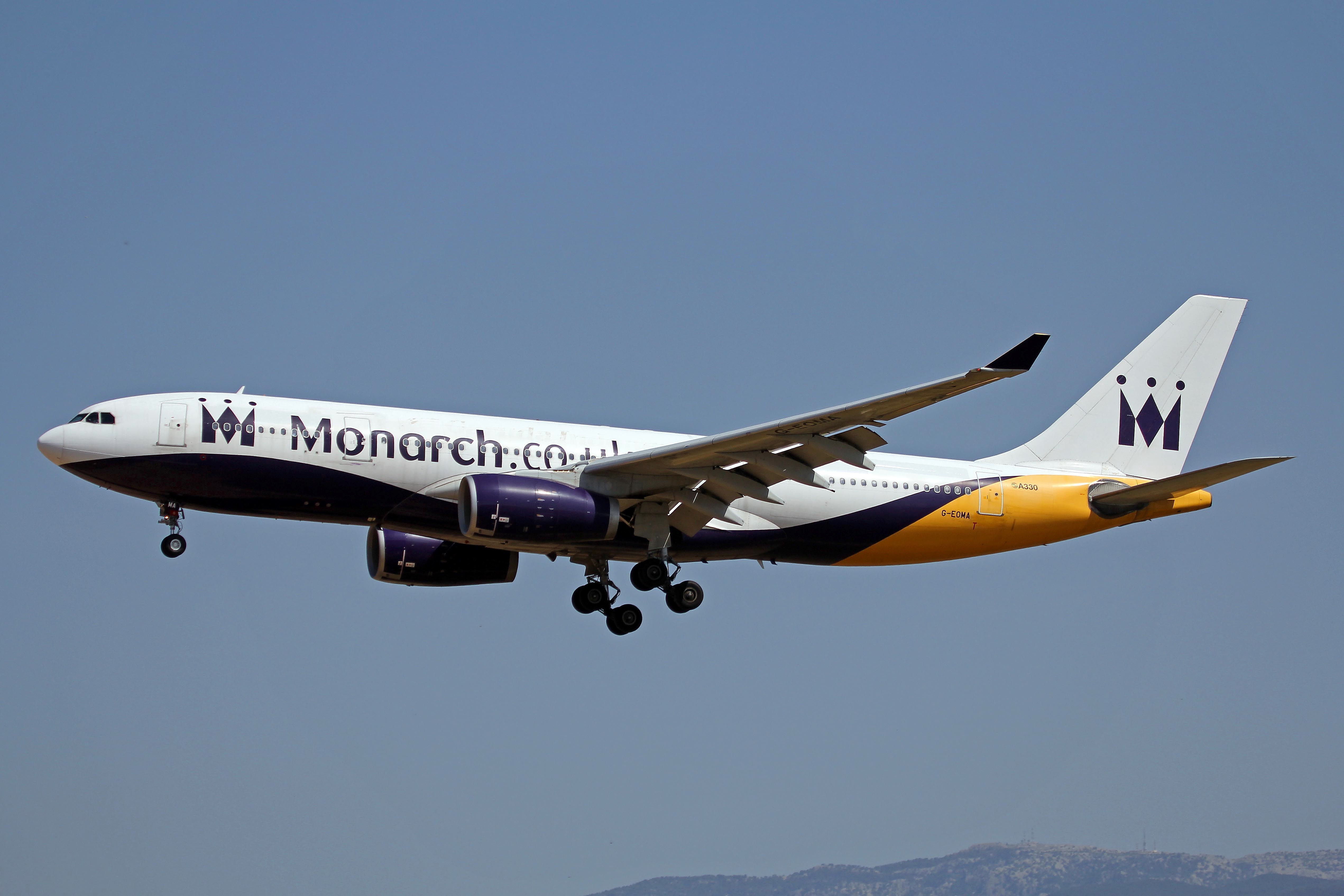 A picture of an airplane (name of it is on the file name).